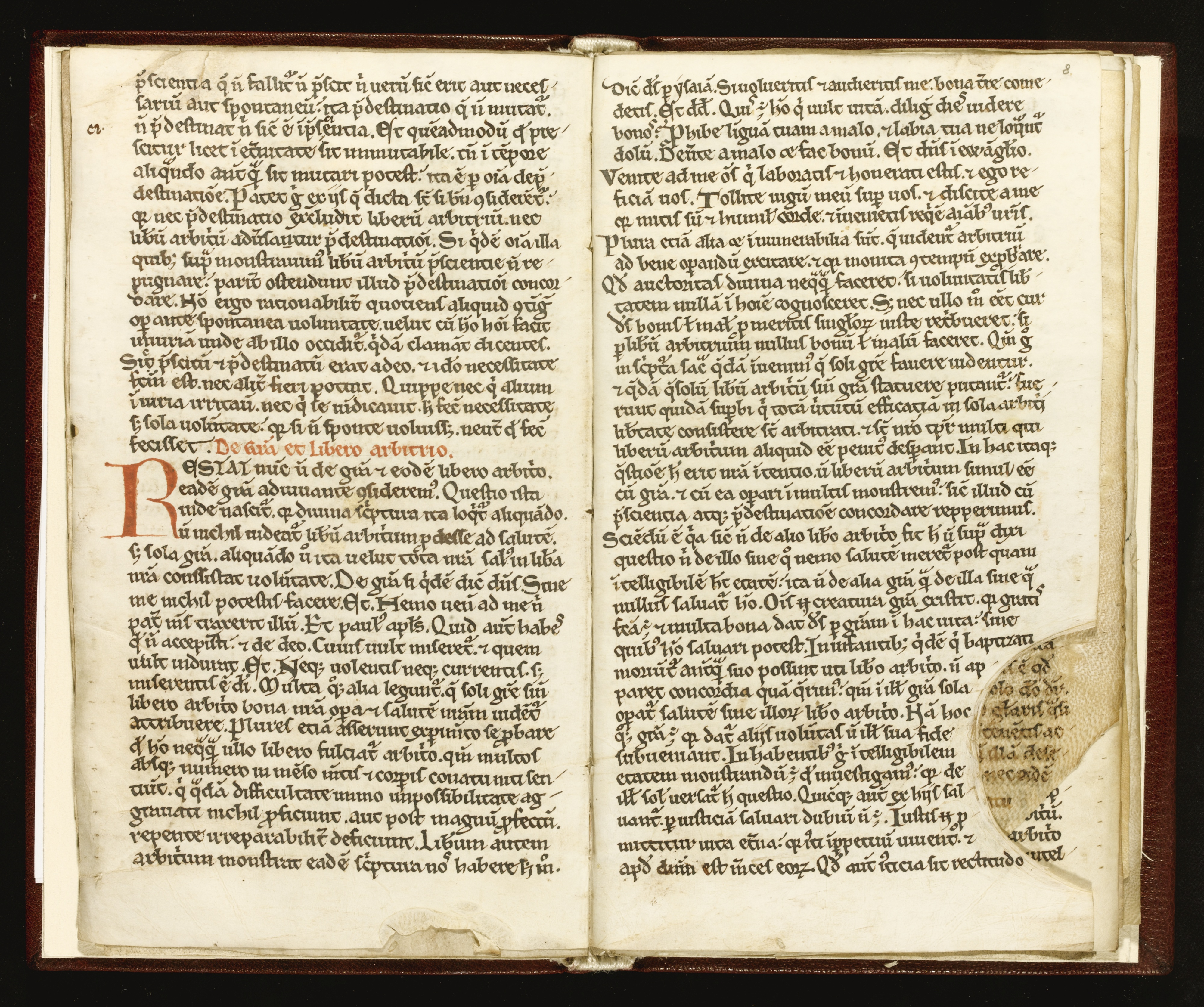 A XII century French manuscript of Anselm of Canterbury's De Concordia Praescientiae et Praedestinationis et Gratiae Dei cum Libero Arbitrio.